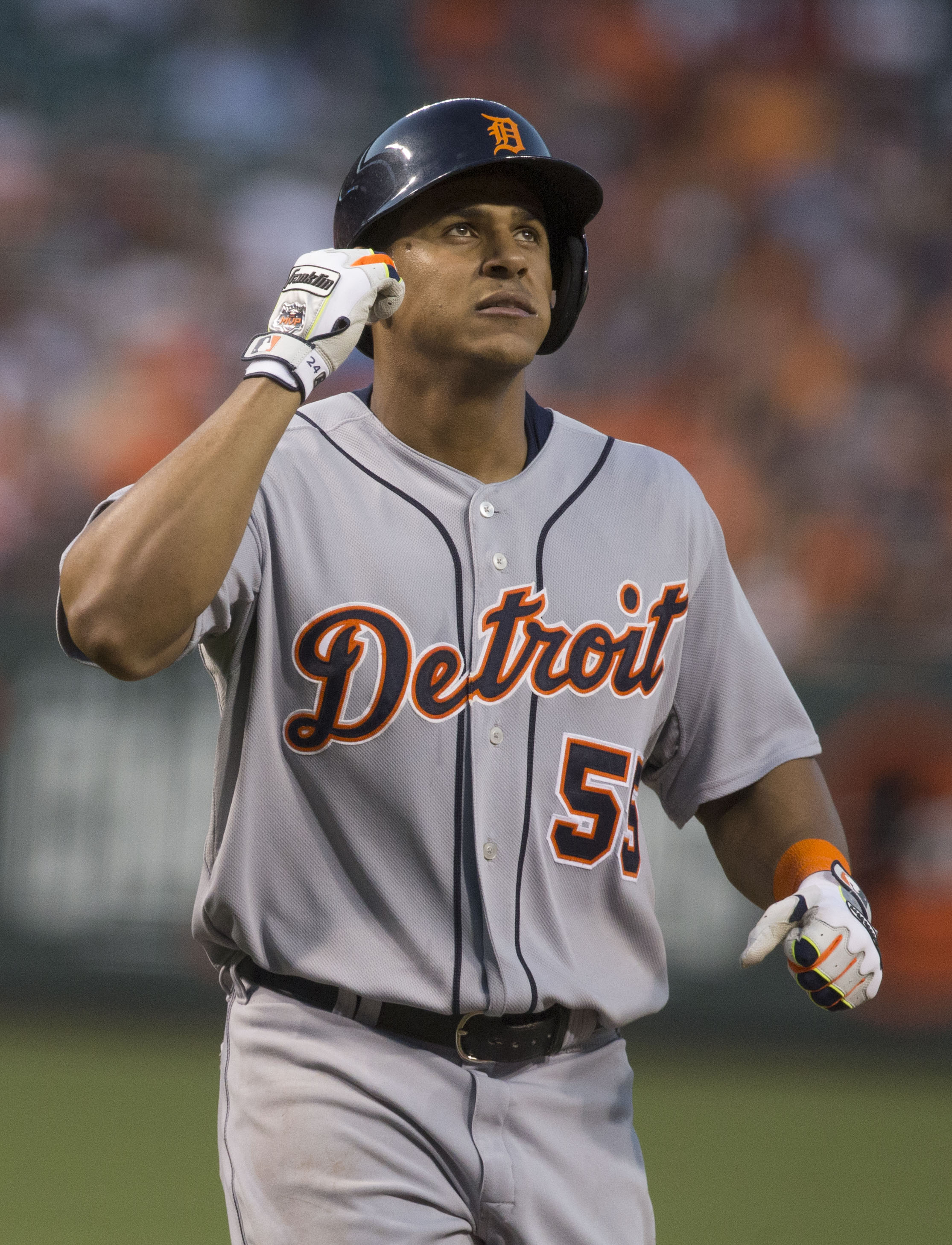 Jefry Marté